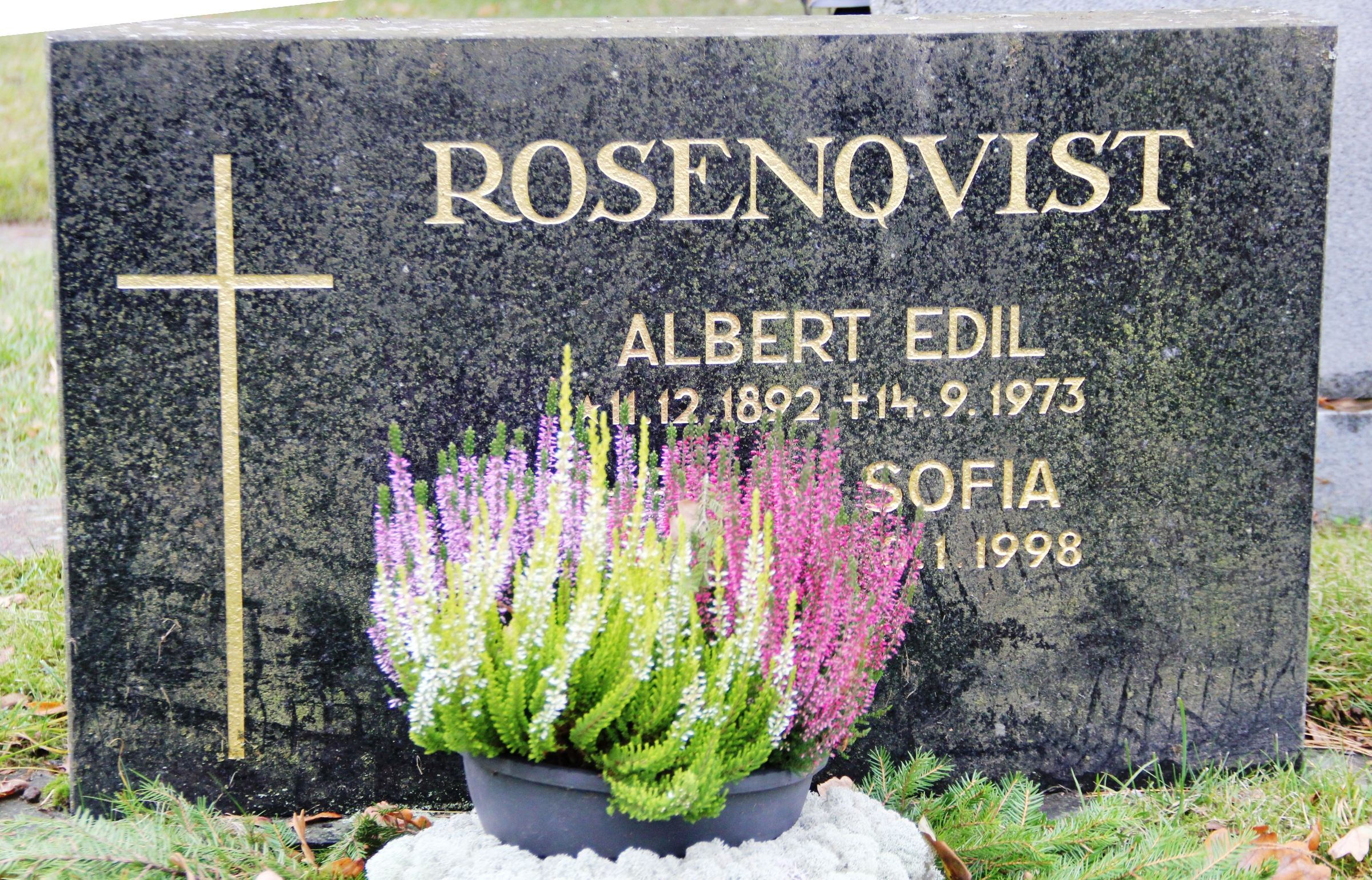 Albert Edil Rosenqvist, Finnish wrestler, Ingå graveyard, Ingå, Finland